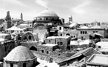 The Hurva Synagogue in the old city of Jerusaelm as it stood before 1948.